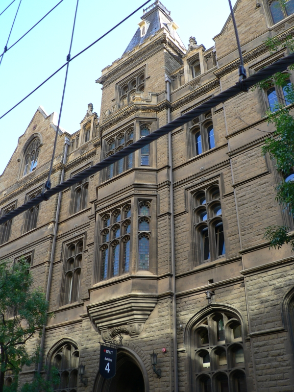 RMIT Building 4. Melbourne, Australia